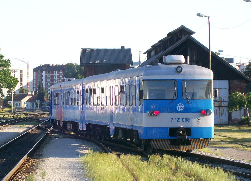 HŽ 7121 series DMU in Varaždin